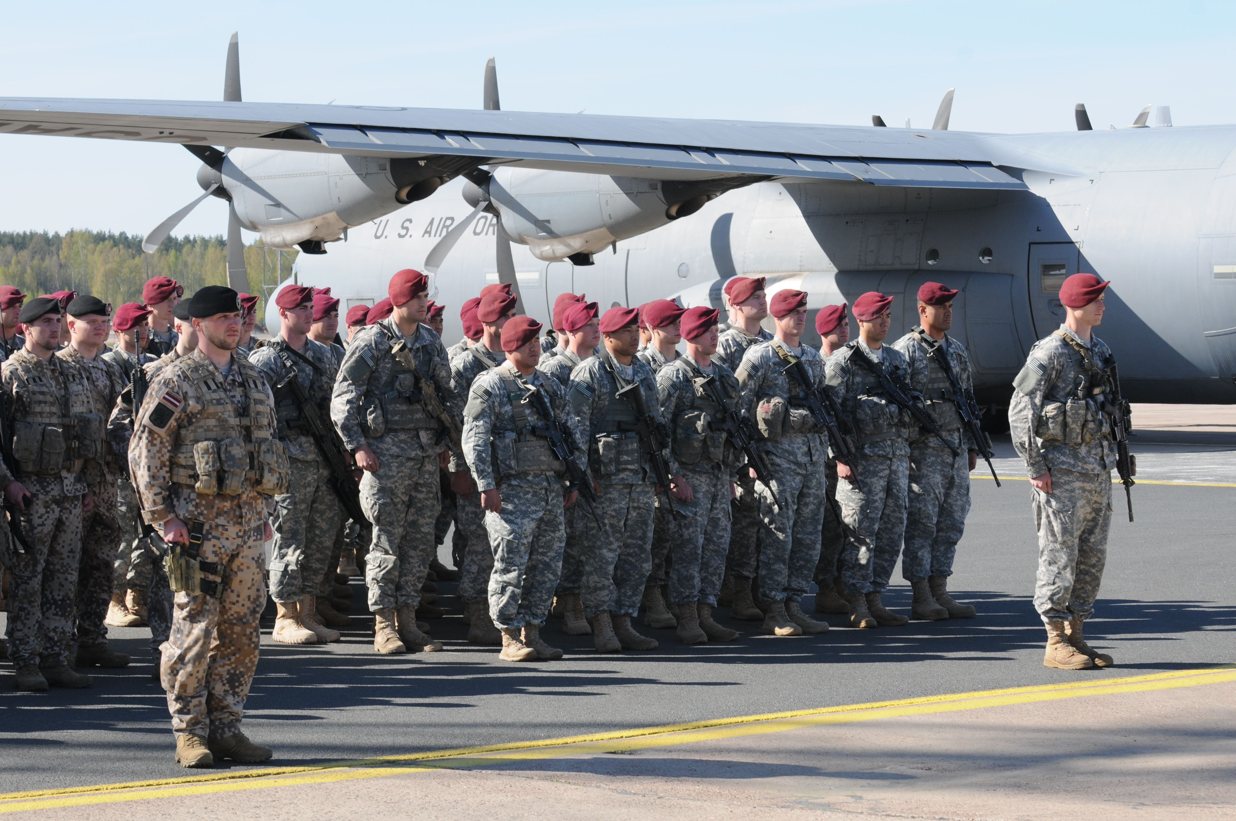 RIGA, Latvia – Paratroopers from U.S. Army Europe’s 173rd Infantry Brigade Combat Team (Airborne) and Latvian Soldiers stand in formation during a ceremony commemorating new exercises here, April 24, 2014. The paratroopers, part of a company-sized contingent, arrived here to begin exercises with Latvian troops in a series of expanded U.S. land forces training activities in Poland and the Baltic region scheduled to take place for the next few months and beyond. The multinational training fulfills the USAREUR strategic objective of preserving and enhancing NATO interoperability and demonstrates the United States' commitment to NATO Allies. (U.S. Army photo by Sgt. Daniel Cole )